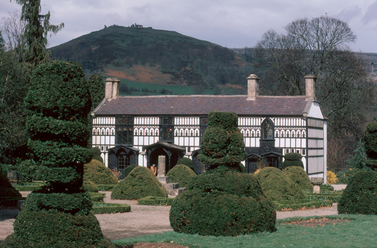 Village of Llangollen in North Wales, Plas Newydd